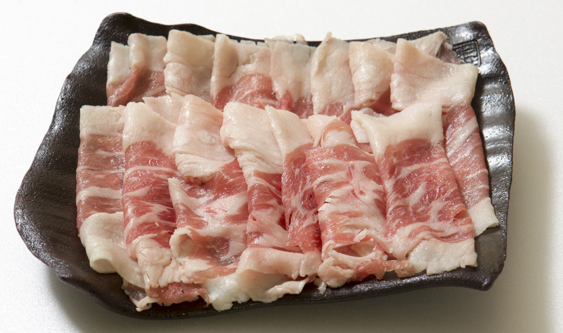 Chadolbagi (beef brisket)